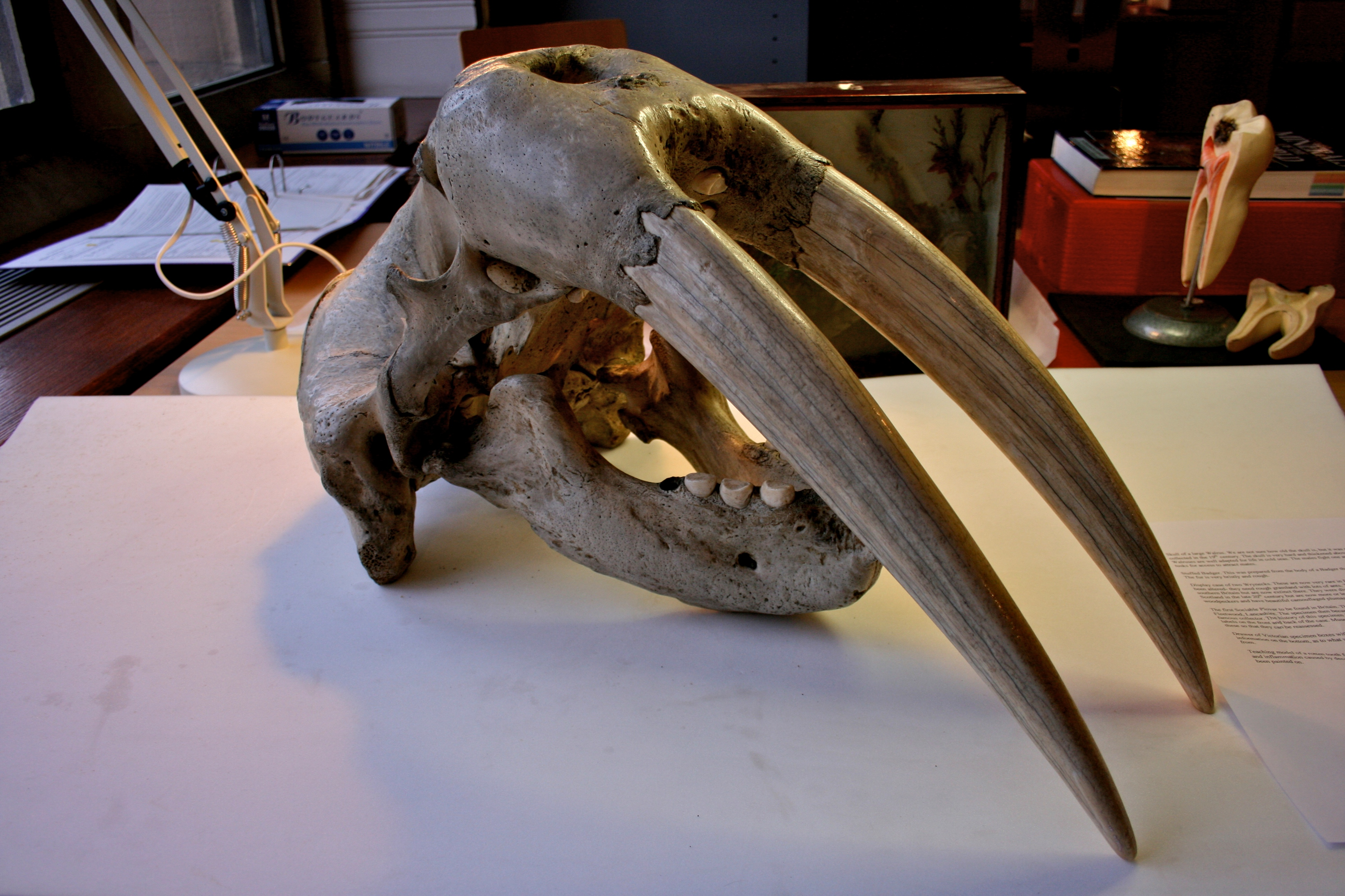 Skull of a large Walrus, probably collected in the 19th century.